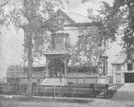 The historic building at 261 Main Street, Yarmouth, Maine. Built in 1879 for Sylvanus Cushing Blanchard.